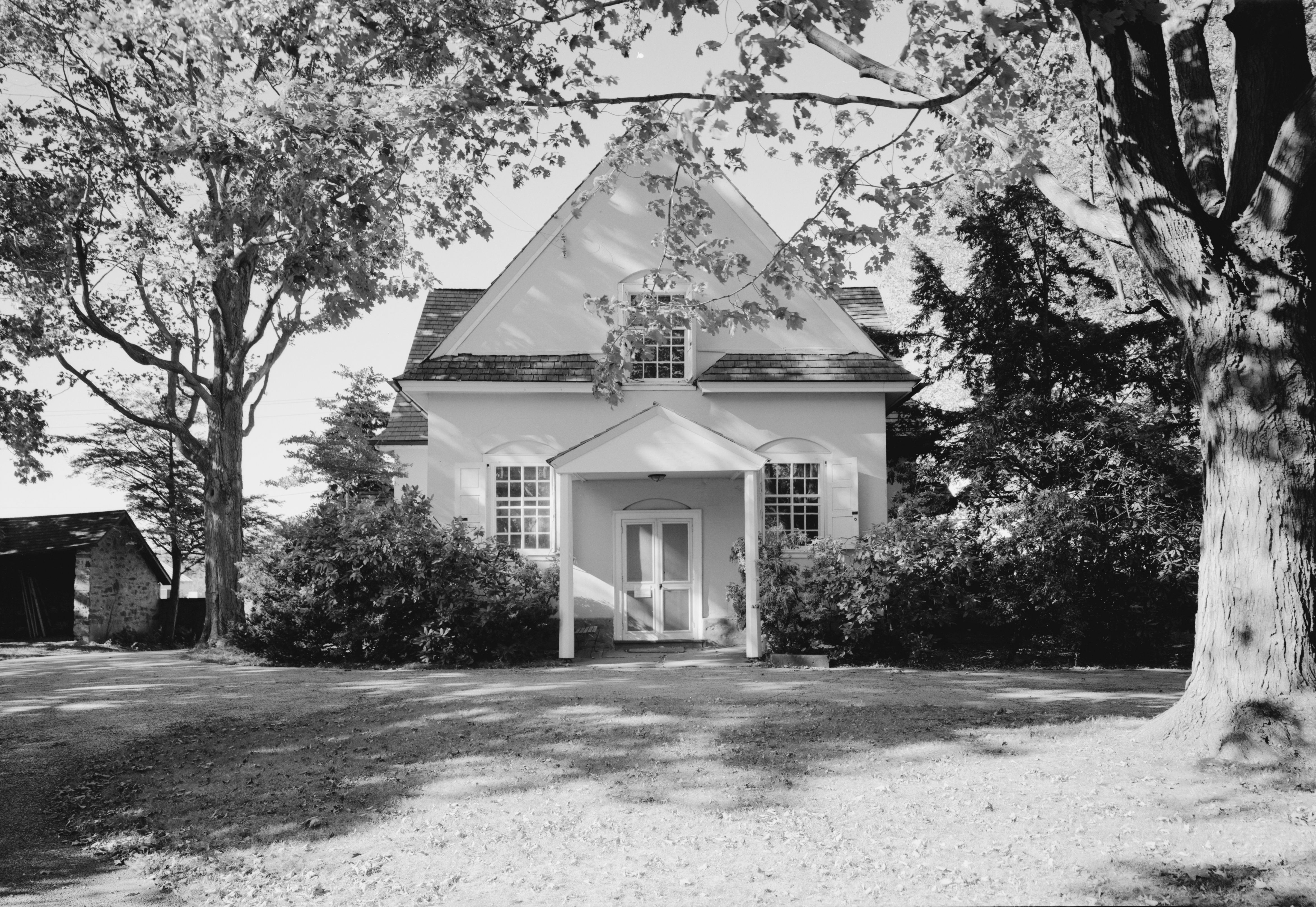 Merion Friends Meeting House, 615 Montgomery Avenue (changed from Montgomery Avenue & Meetinghouse Lane), Merion Station (Montgomery County, Pennsylvania) (cropped)